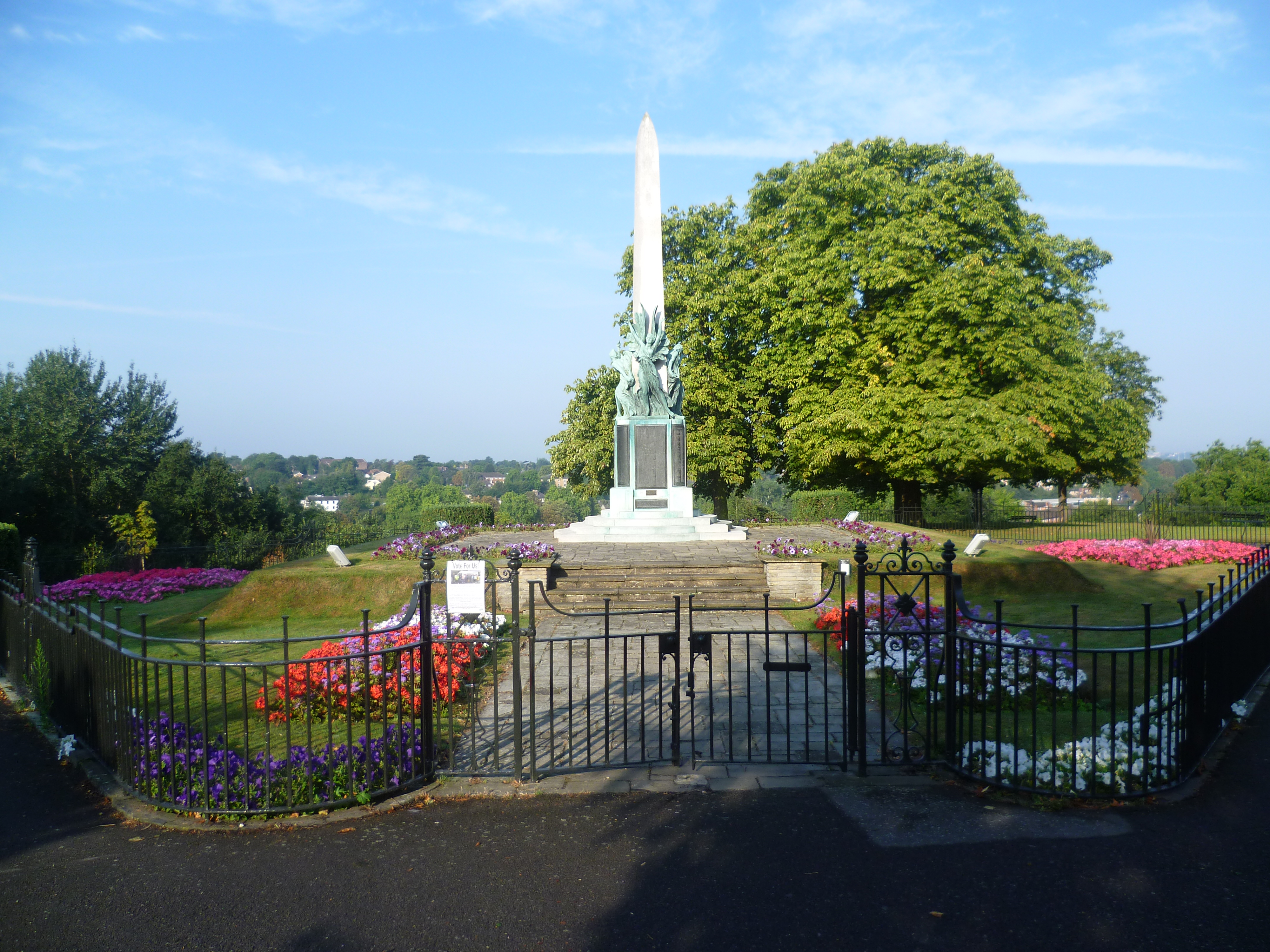 Bromley War Memorial at Martin's Hill in Bromley, Kent, England. Erected 1922, sculptor Sydney March.